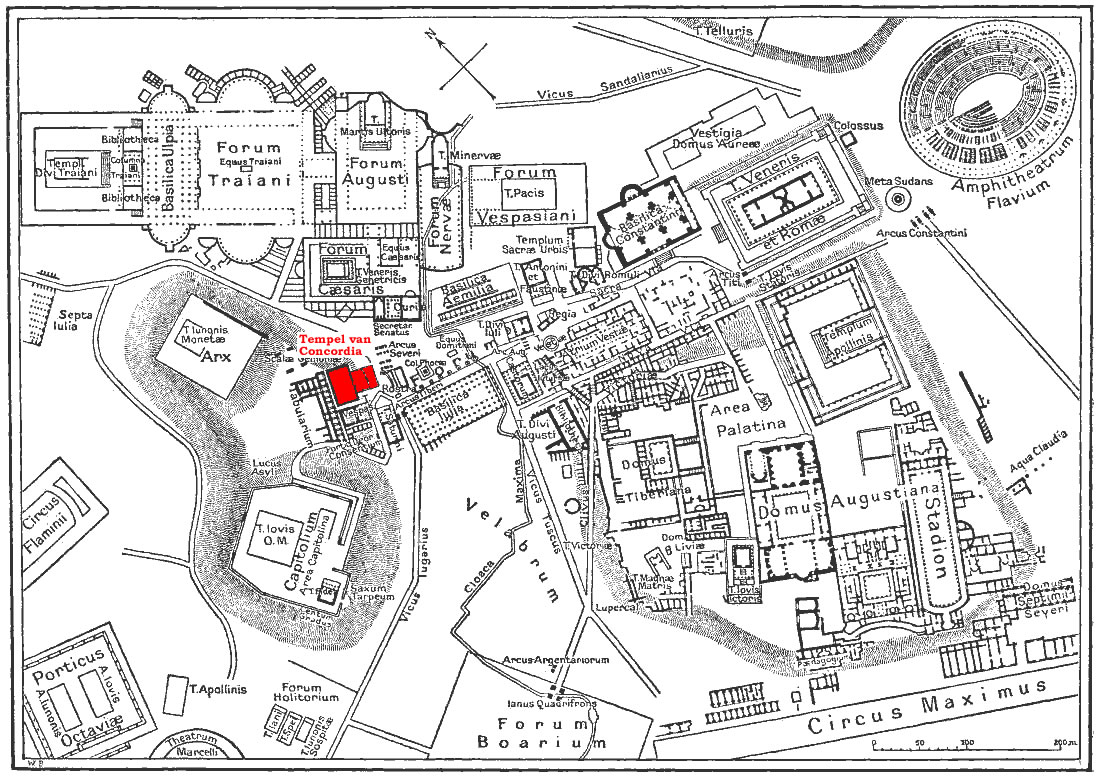 Map of antique downtown Rome, Temple of Concordia is highlighted